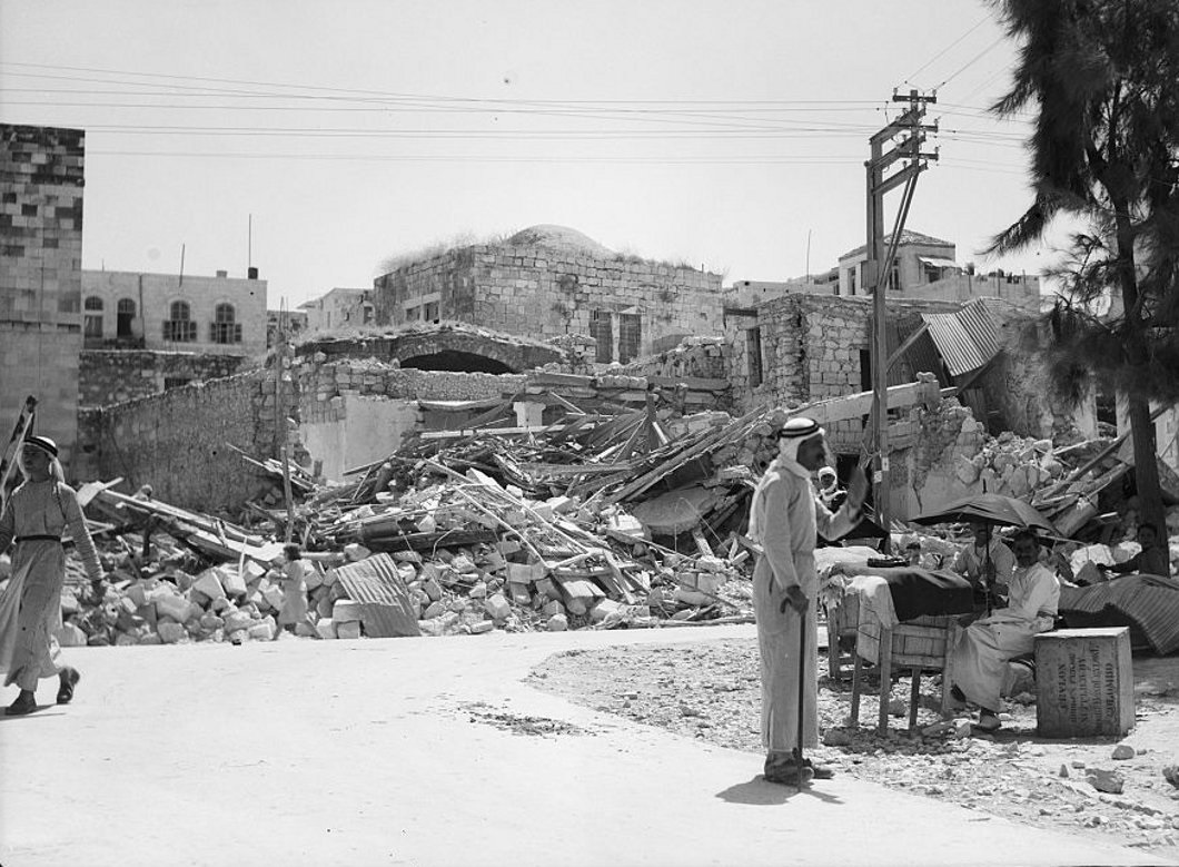 British dynamiting of various parts of Jenin during the 1936 Palestine revolt